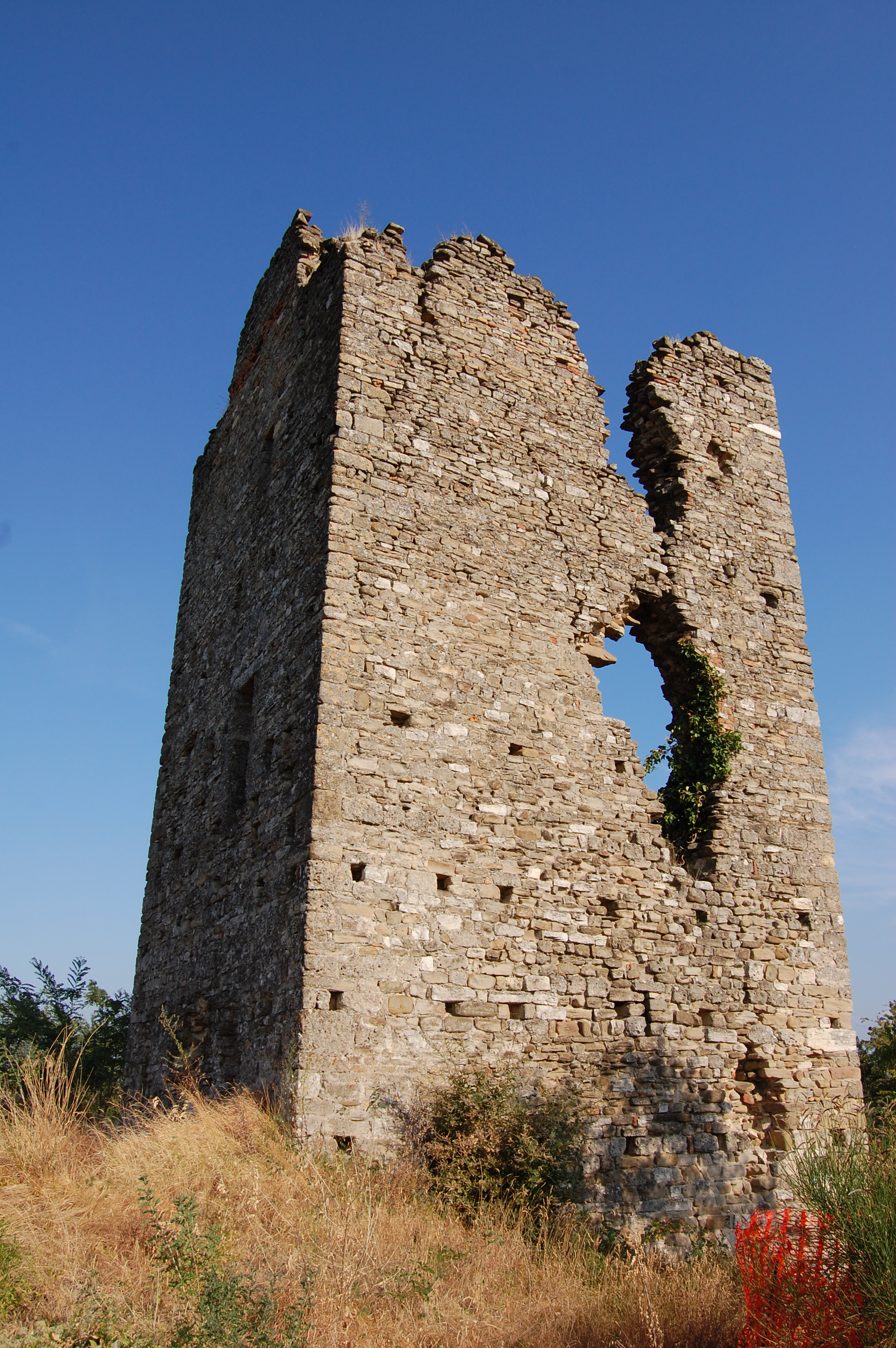 Torre Castelnuovo, a Medieval tower in Meldola, Forlì-Cesena, Italy